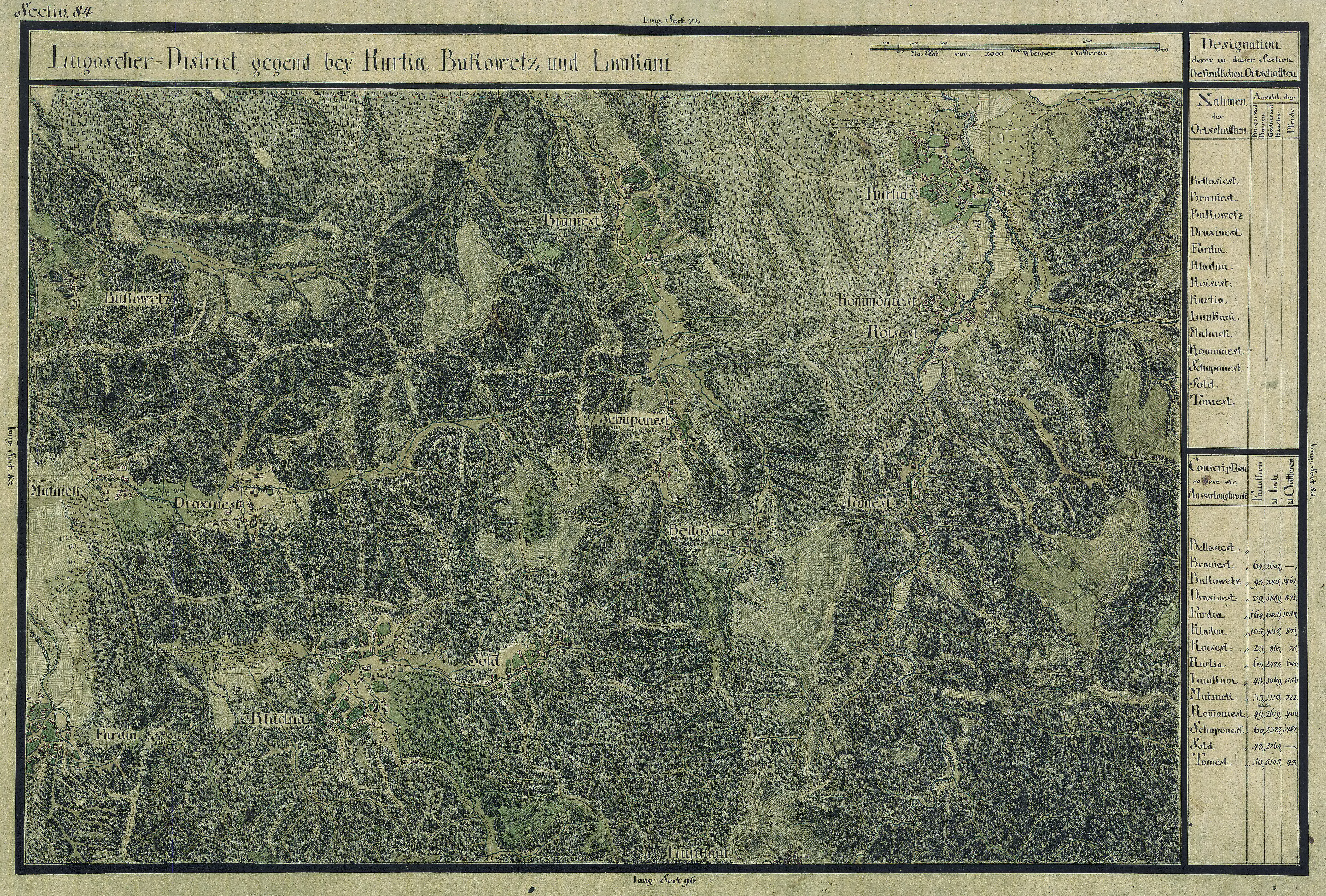 The Banat region in the cadastral maps: Josephinische Landesaufnahme, 1769-72. Josephinische Landaufnahme pg084